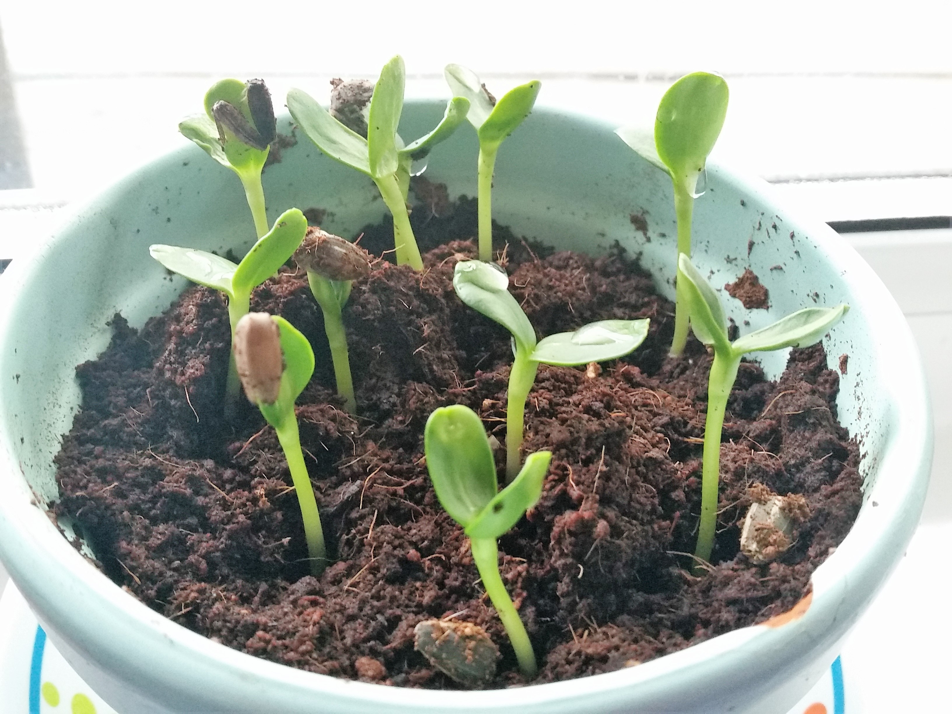 Home experiment about common sunflower (Helianthus annuus) growing, in London, England. 2 days old.